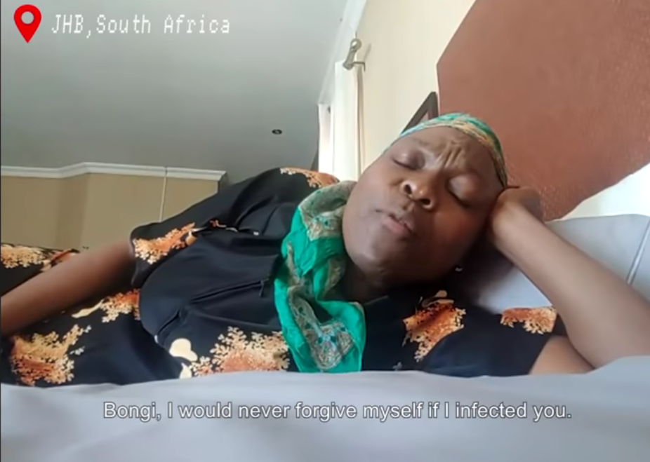 Aunty Nomalanga played by Sthandiwe Kgorogeh in MTV shuga